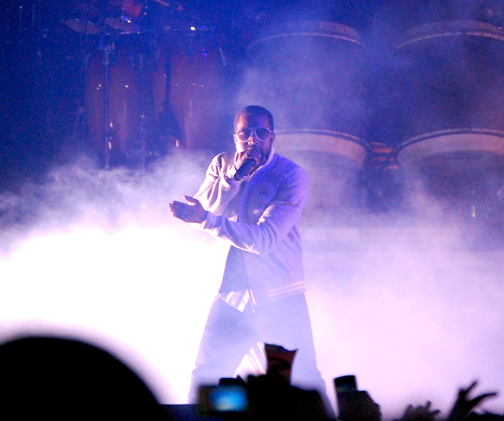 West performing in August 2008.